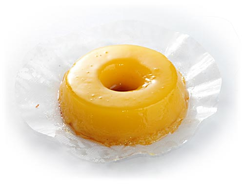 Photo of a Quindim (Brazilian sweet)